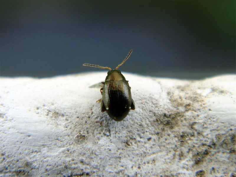 Chaetocnema concinna in Ansião, Leiria, Portugal